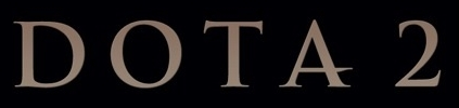 A cropped logo of the video game Dota 2.